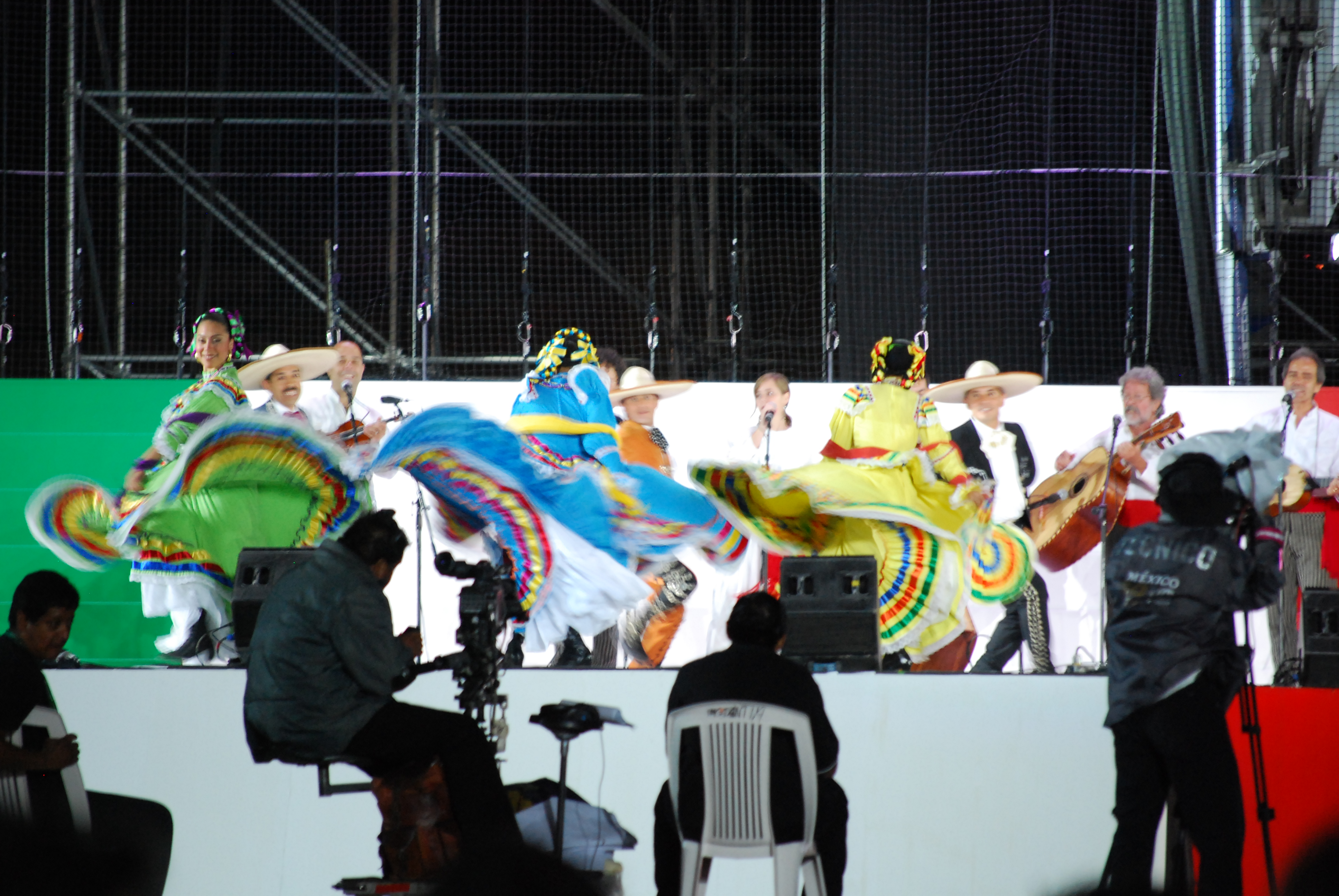 Traditional dance on the northeast stage of the Zocalo before the Grito 2010